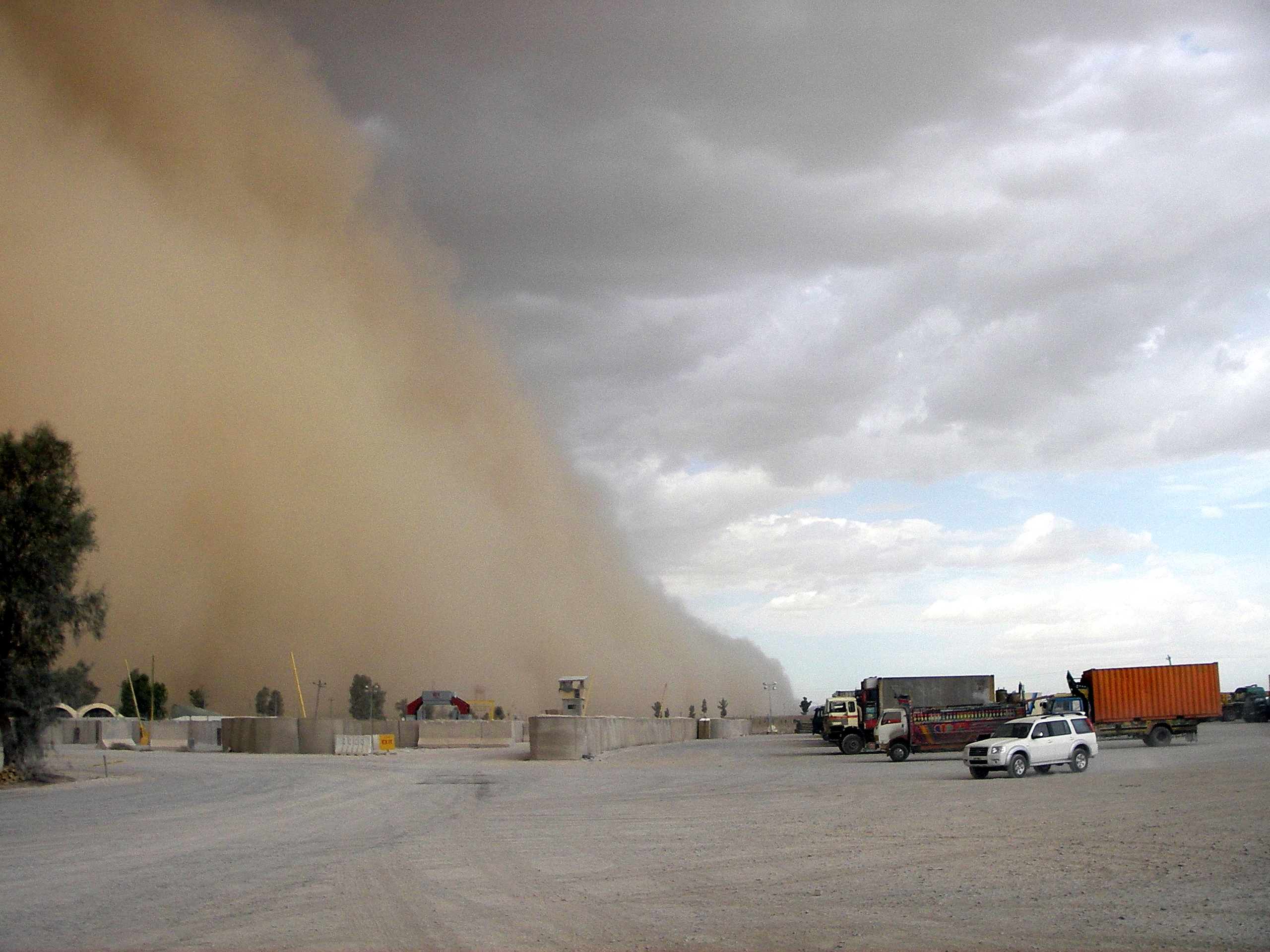 A duststorm cutting across the sky at Kandahar Airfield in August 2008